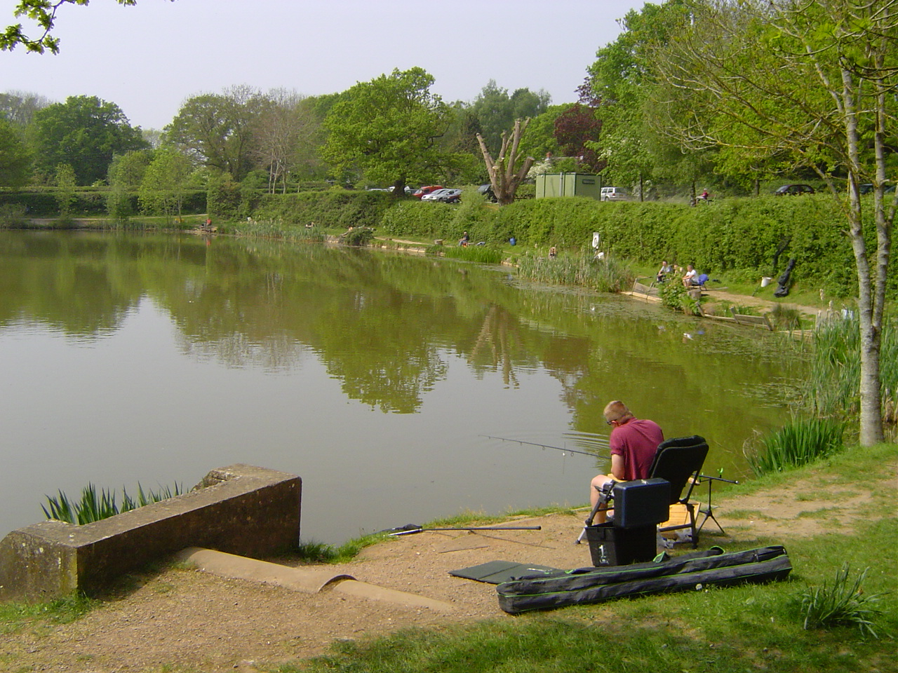 Fishing at Bitterwell Lake